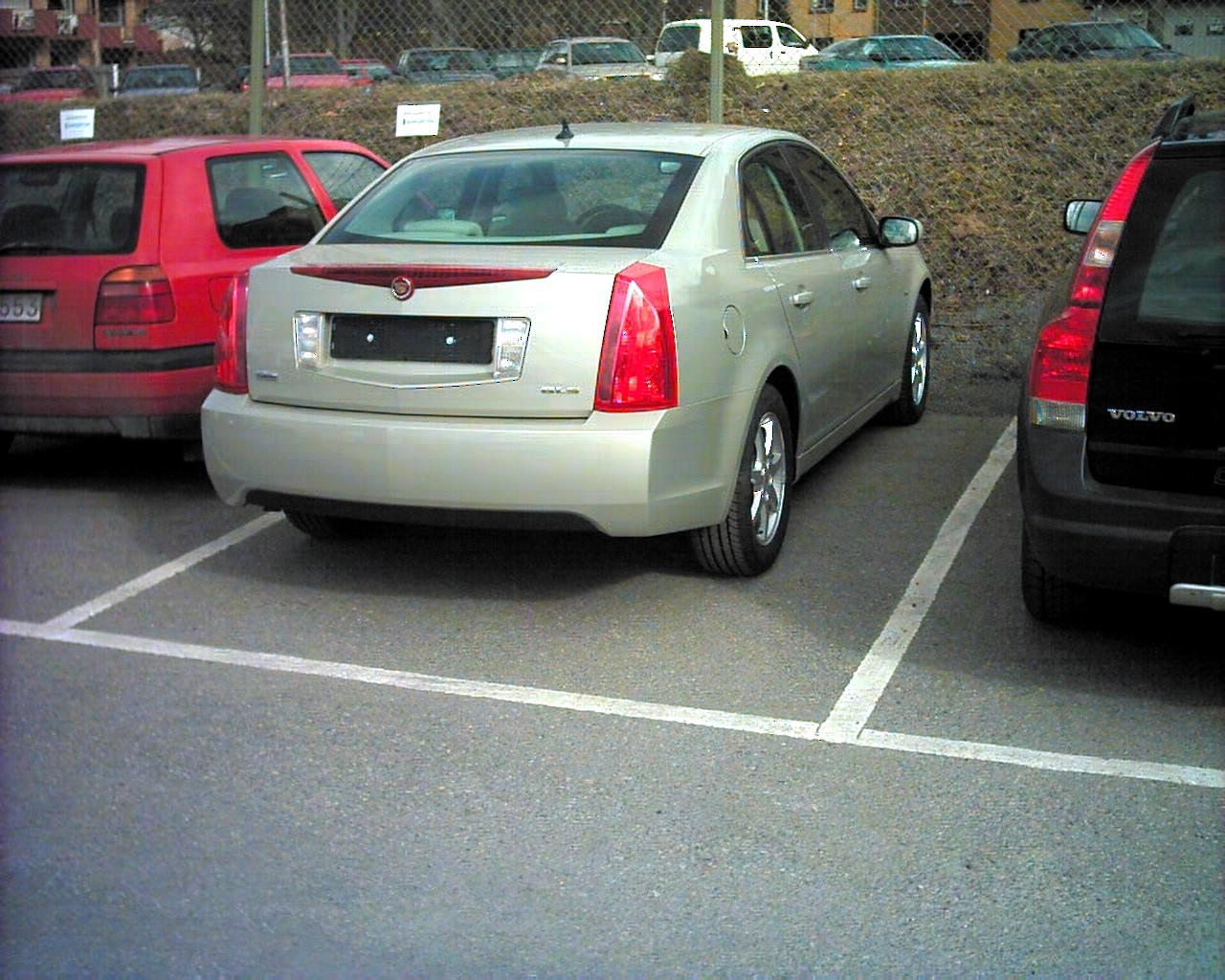 Cadillac BLS. Photo taken by User:Boivie in Jönköping 7 April 2006